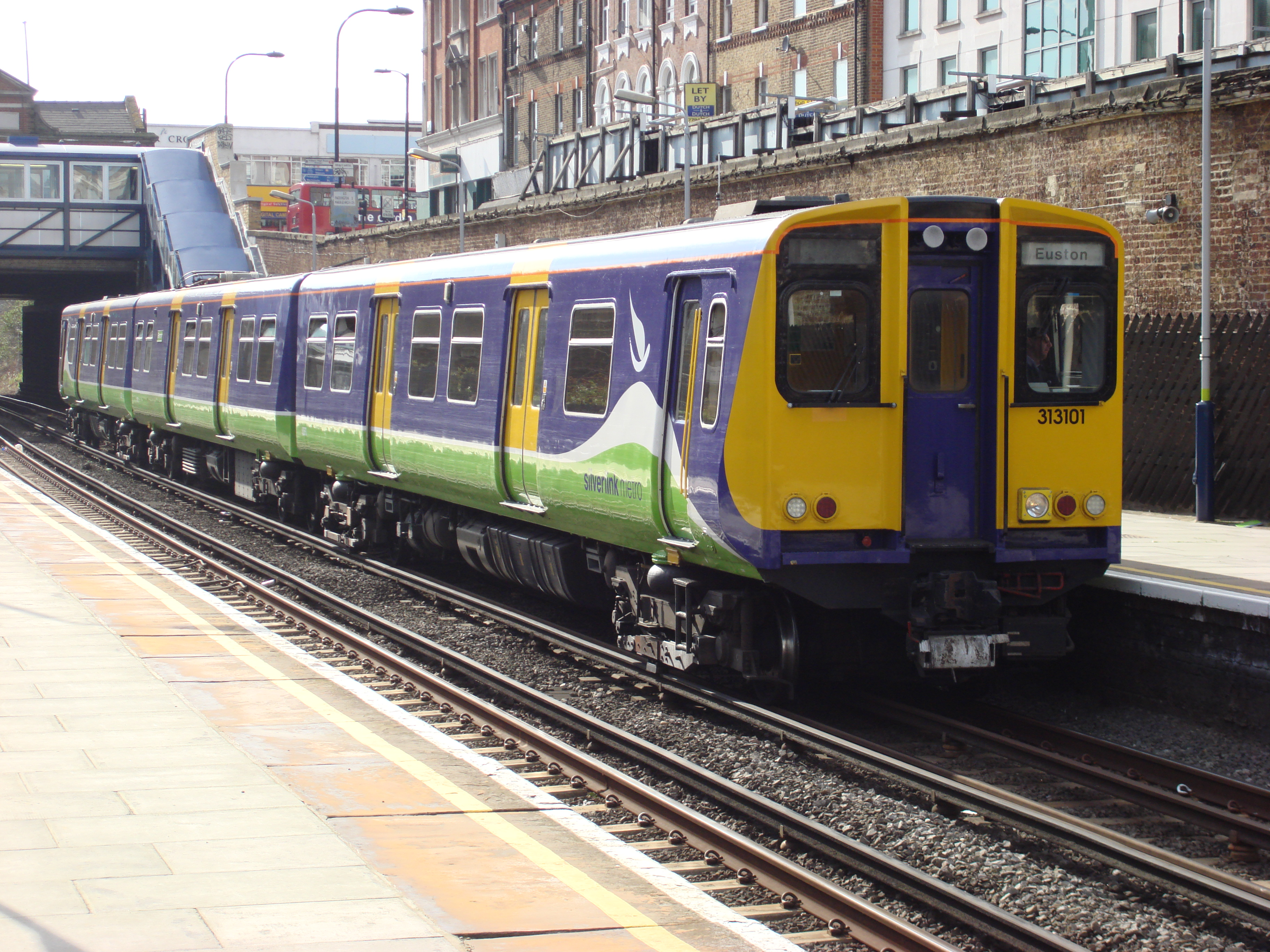 British Rail Class 313 number 313101 at Kilburn High Road railway station.